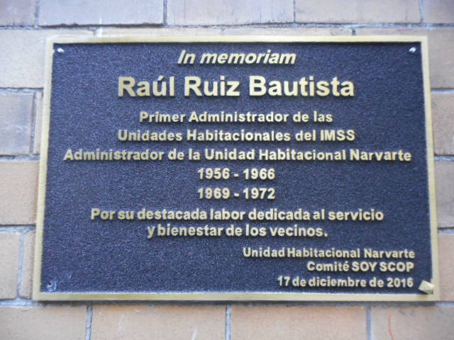 Commemorative plaque devoted to Raul Ruiz Bautista at Narvarte multi family compounds, Mexico City, where he was the first manager at 1956